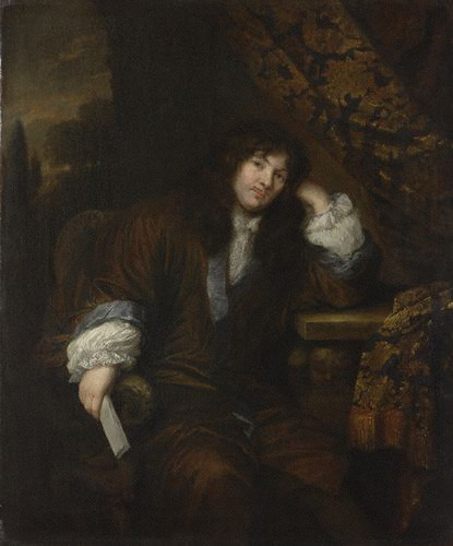 Sir William Temple, 1st Baronet